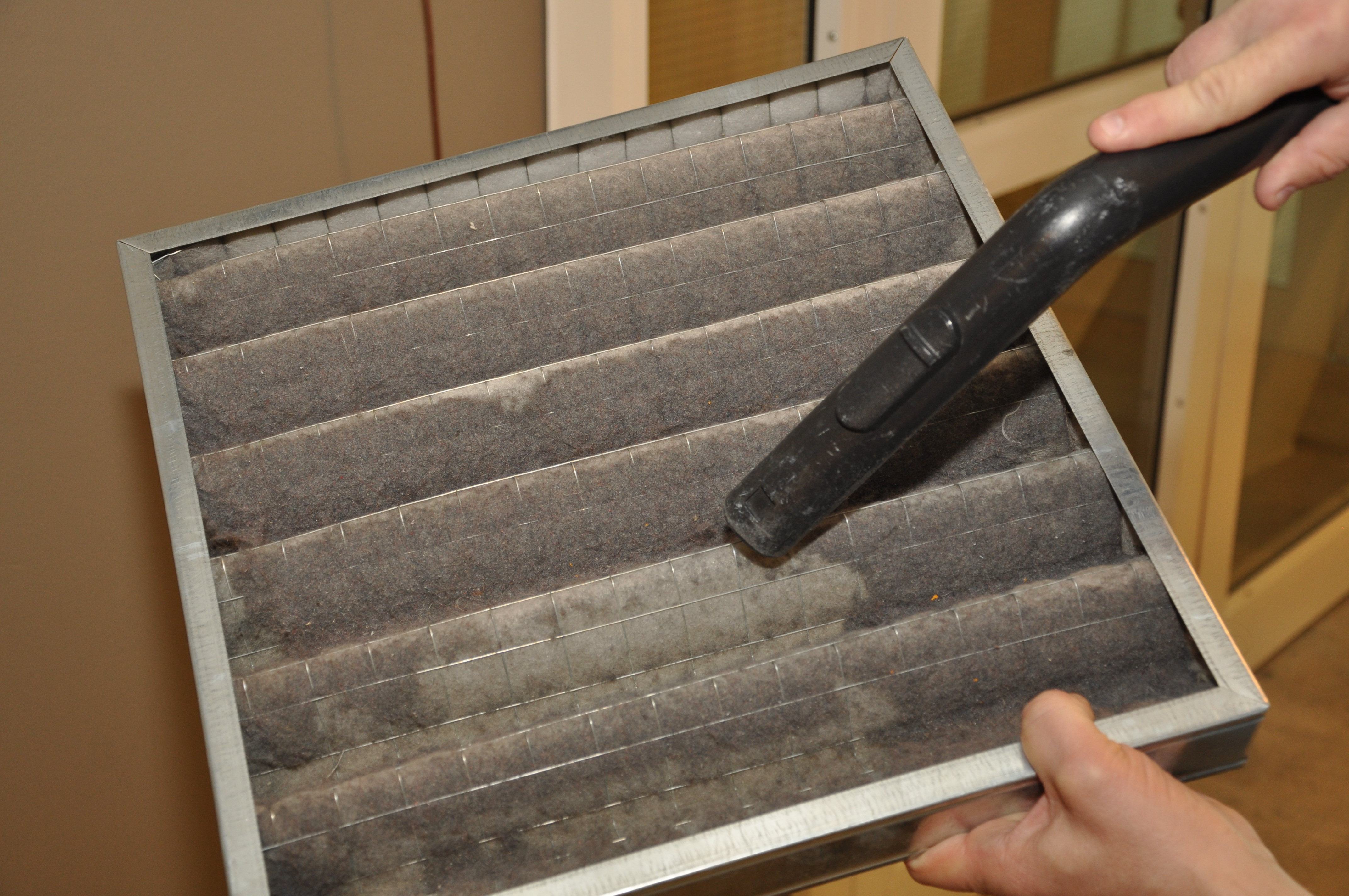 Cleaning the air cooler filter at Stacken.